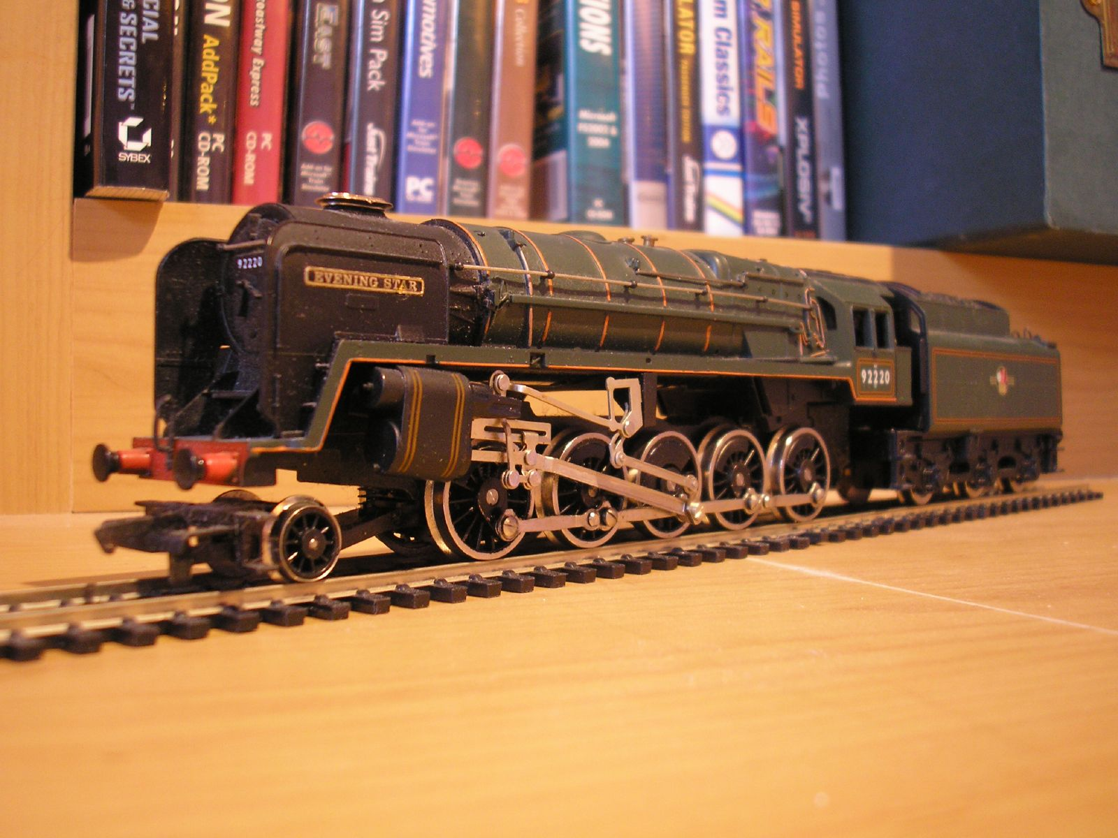 Riddles 10 wheel classic. This is "Evening star" the last steam locomotive built for British railways in the 60s. These superb locomotives were withdrawn with years of life left in them. Rather like my model which I intend to put up for sale.